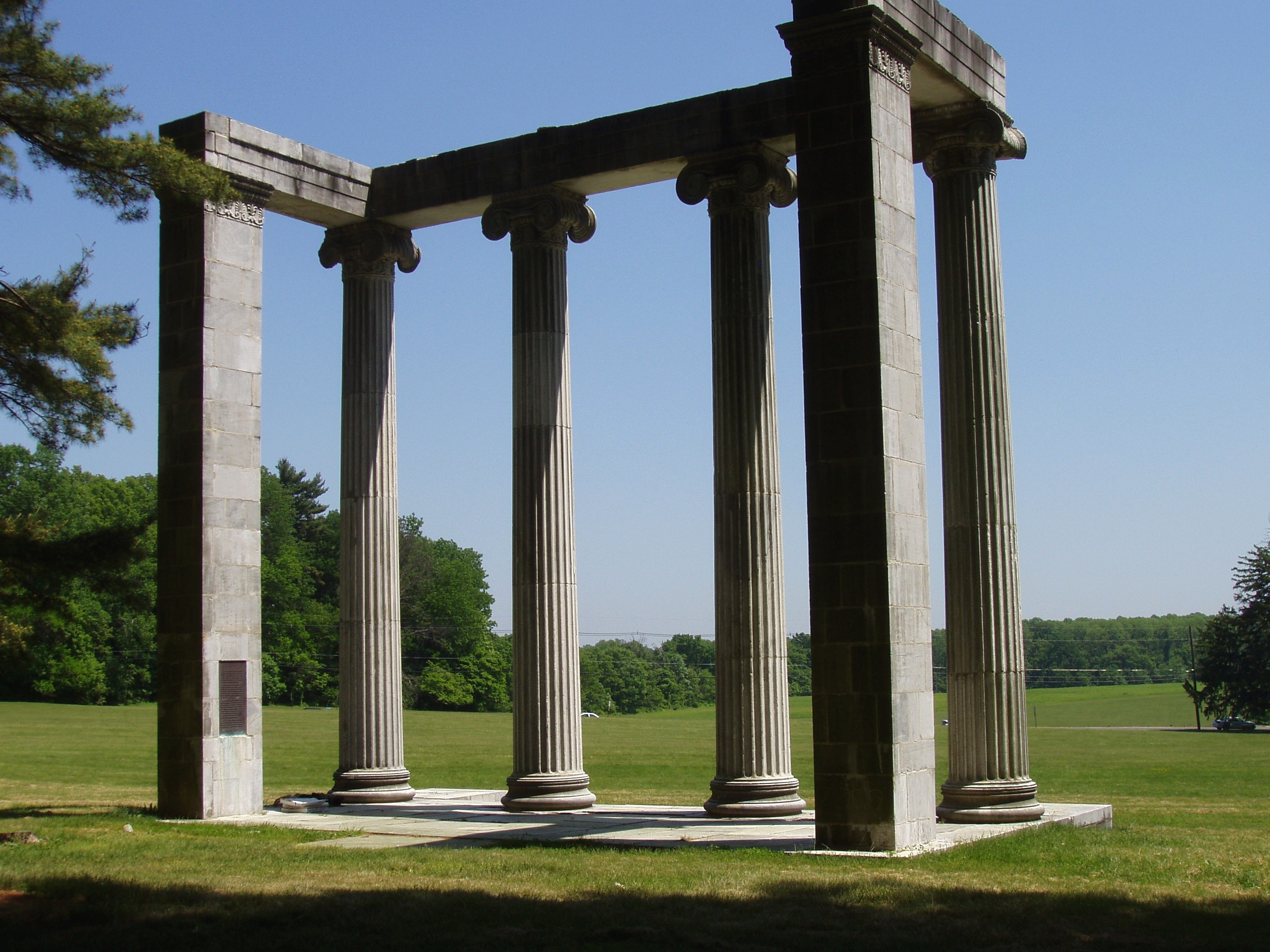 Photograph of Princeton Battlefield State Park, Princeton, New Jersey, USA.